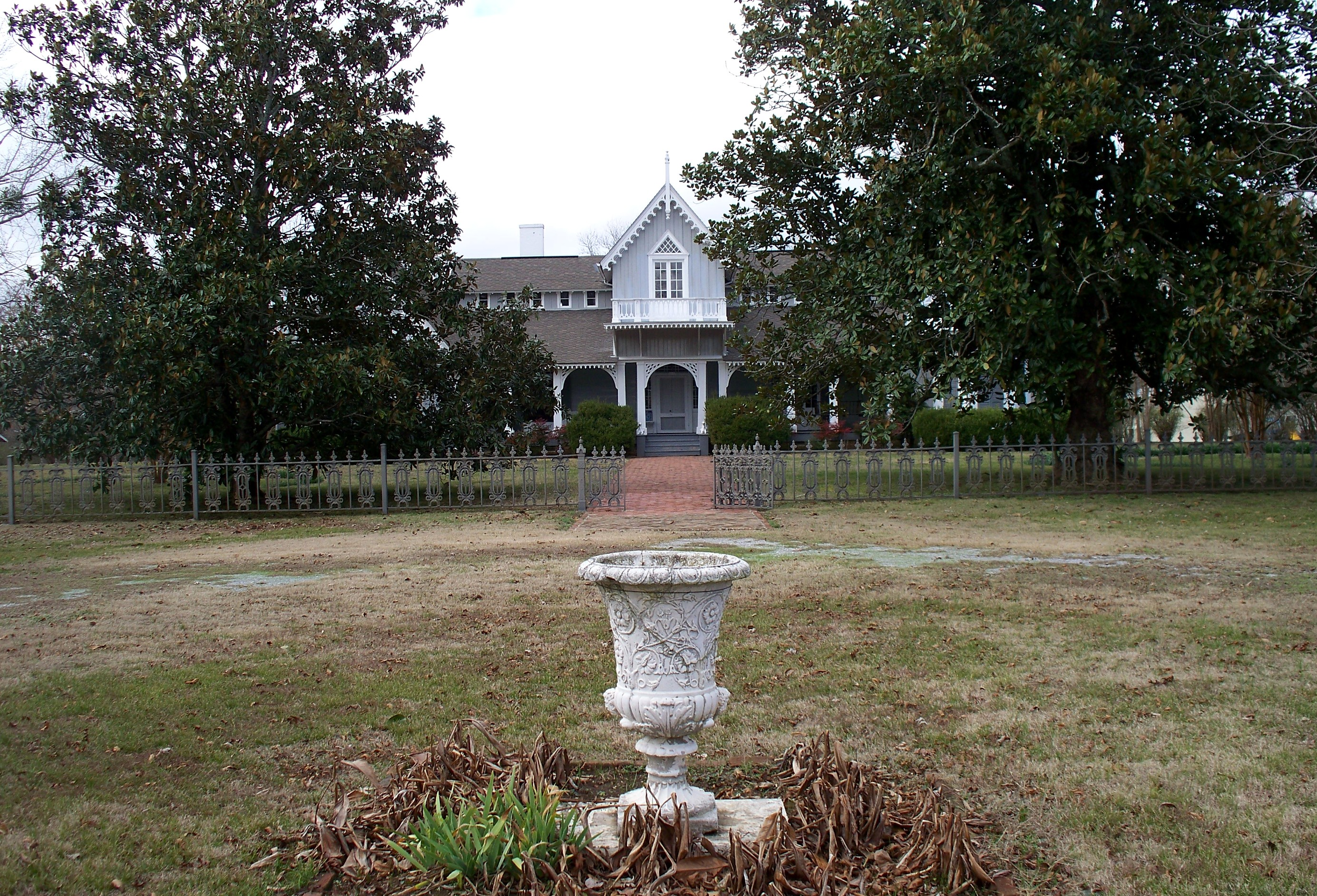 Waldwic plantation house in 2008. It was built in 1840 and renovated in the Gothic Revival style in 1852. A Historic district contributing property in the Plantation Houses of the Alabama Canebrake and Their Associated Outbuildings Multiple Property Submission, and on the National Register of Historic Places.